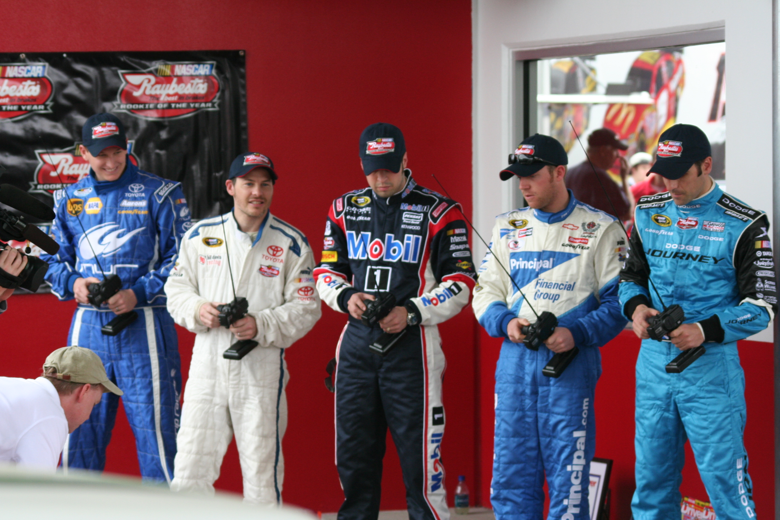 Left to right: Michael McDowell, Jacques Villeneuve, Sam Hornish, Jr., Regan Smith and Dario Franchitti. (Contenders not shown: Patrick Carpentier). They are racing tiny remote control cars. Shot by "The Daredevil" at Daytona during Speedweeks 2008.